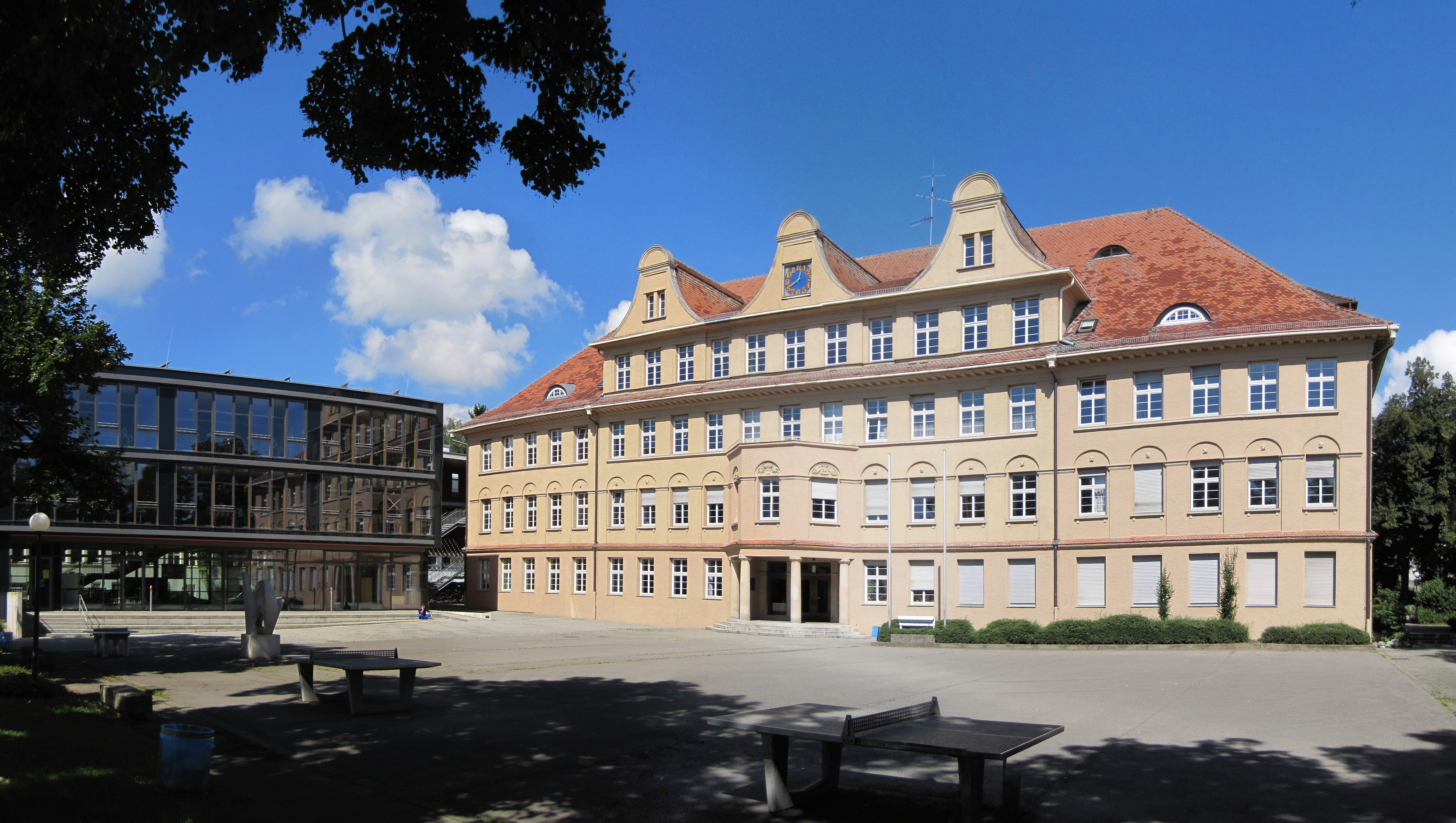 Building of the school Max-Planck-Gymnasium in Nürtingen, Germany